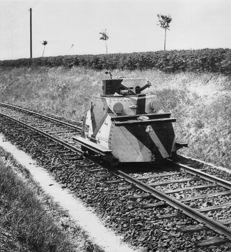 armored trolley Tatra T-18